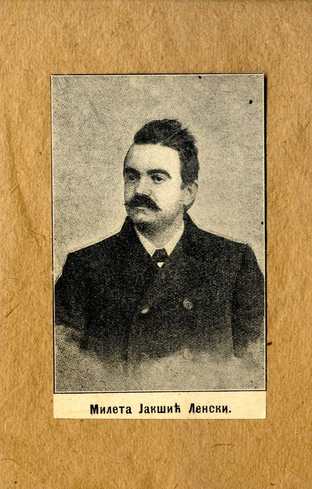 Photo Mileta Jaksic from Orao: Veliki ilustrovani kalendar, 1899.